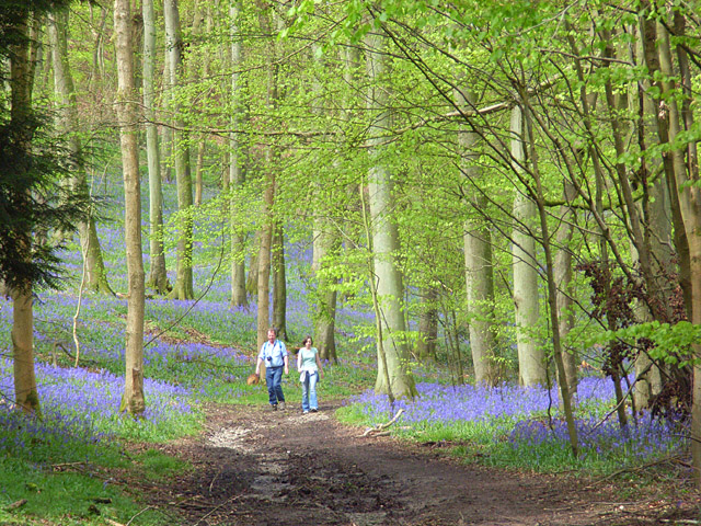 Longhill Hanging Wood A foreshortened view along the bridleway with walkers coming down the valley.